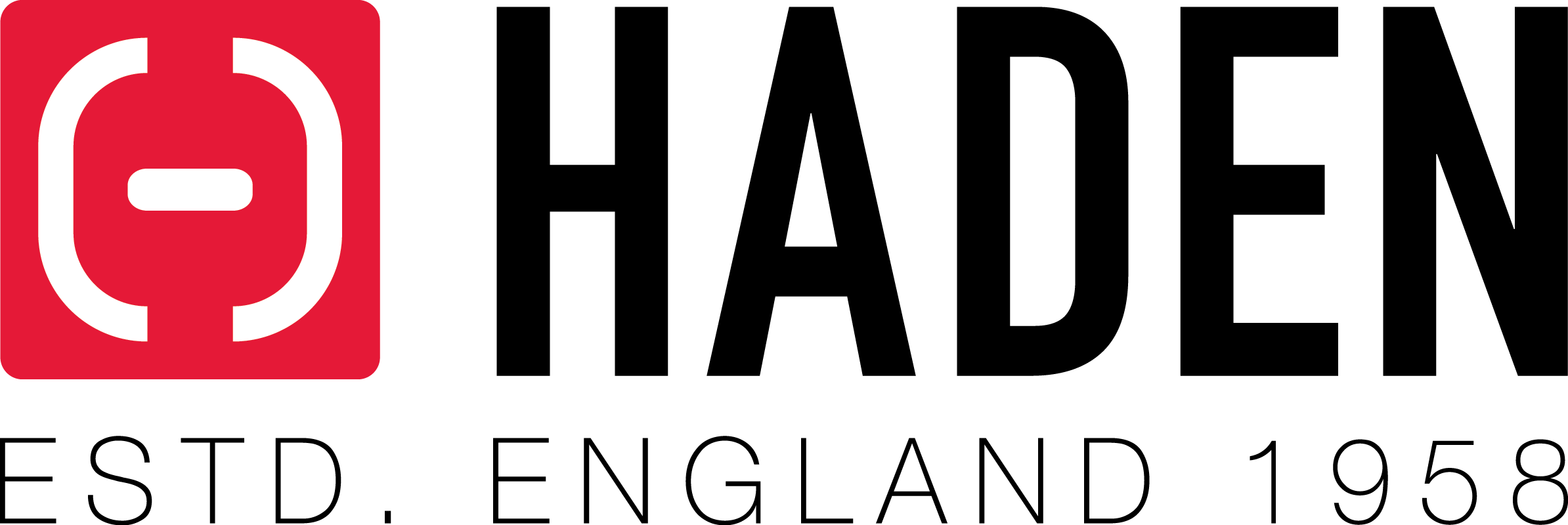 Haden Appliances logo since Sabichi Homewares acquired the brand in 2016.